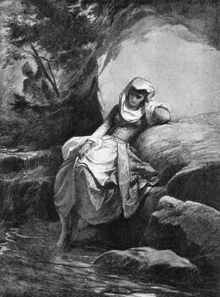 Zichy, Mihaly. Biela (Lermontov)